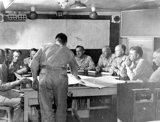 Prior to the Sandstone bomb tests at Eniwetok, a weather briefing is held on the USS Mt. McKinley (AGC-7). Pictured are Colonel T.J. Sands, Captain J.S. Russell, Dr. D.K. Froman, Brigadier General D.A. Ogden, Major General J.D. Barker, Major General W.E. Kepner, Lieutenant General John E. Hull, Rear Admiral W.S. Parsons, Rear Admiral F.C. Denebrink, and Brigadier General Claude B. Ferenbaugh